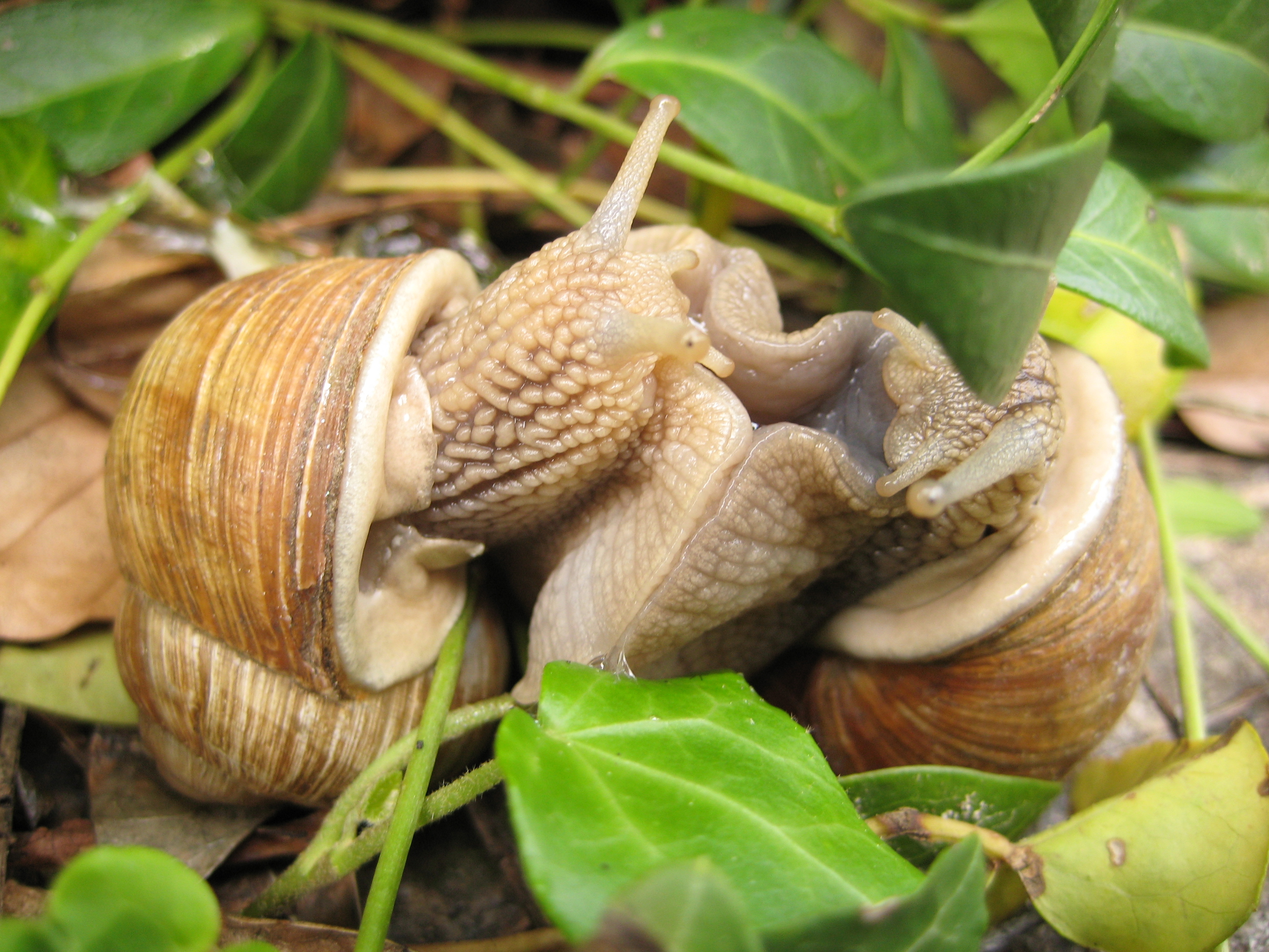 Copulating Burgundy snails